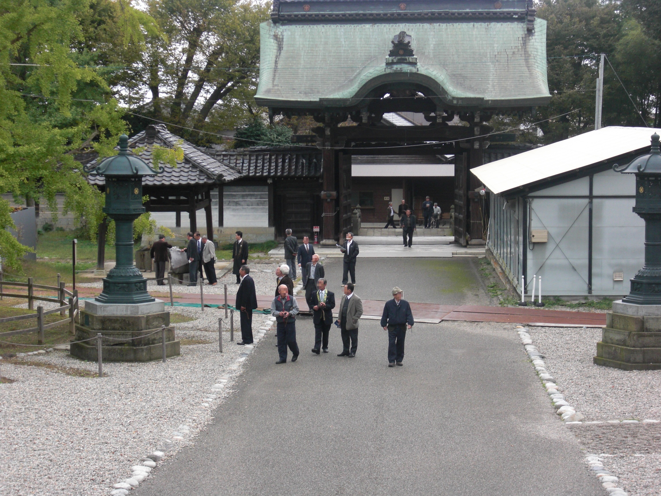 This is the Shoko Temple, which is located in Toyama, Japan.